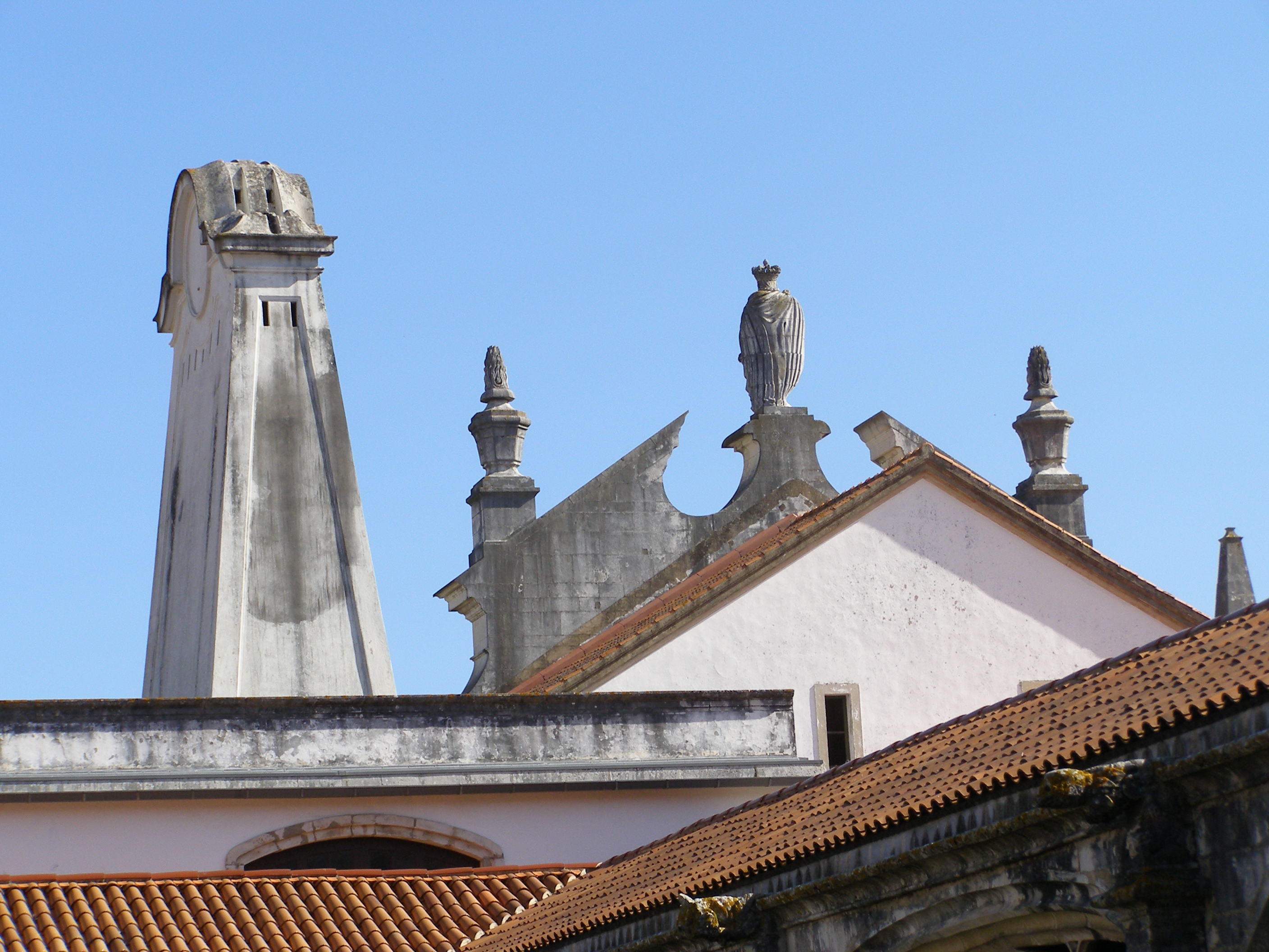 Rear view of the north wing, Monastery of Alcobaça. Visible the top of the massive chimney (left) and the back side of the façade (right) crowned by a statue of Afonso I.